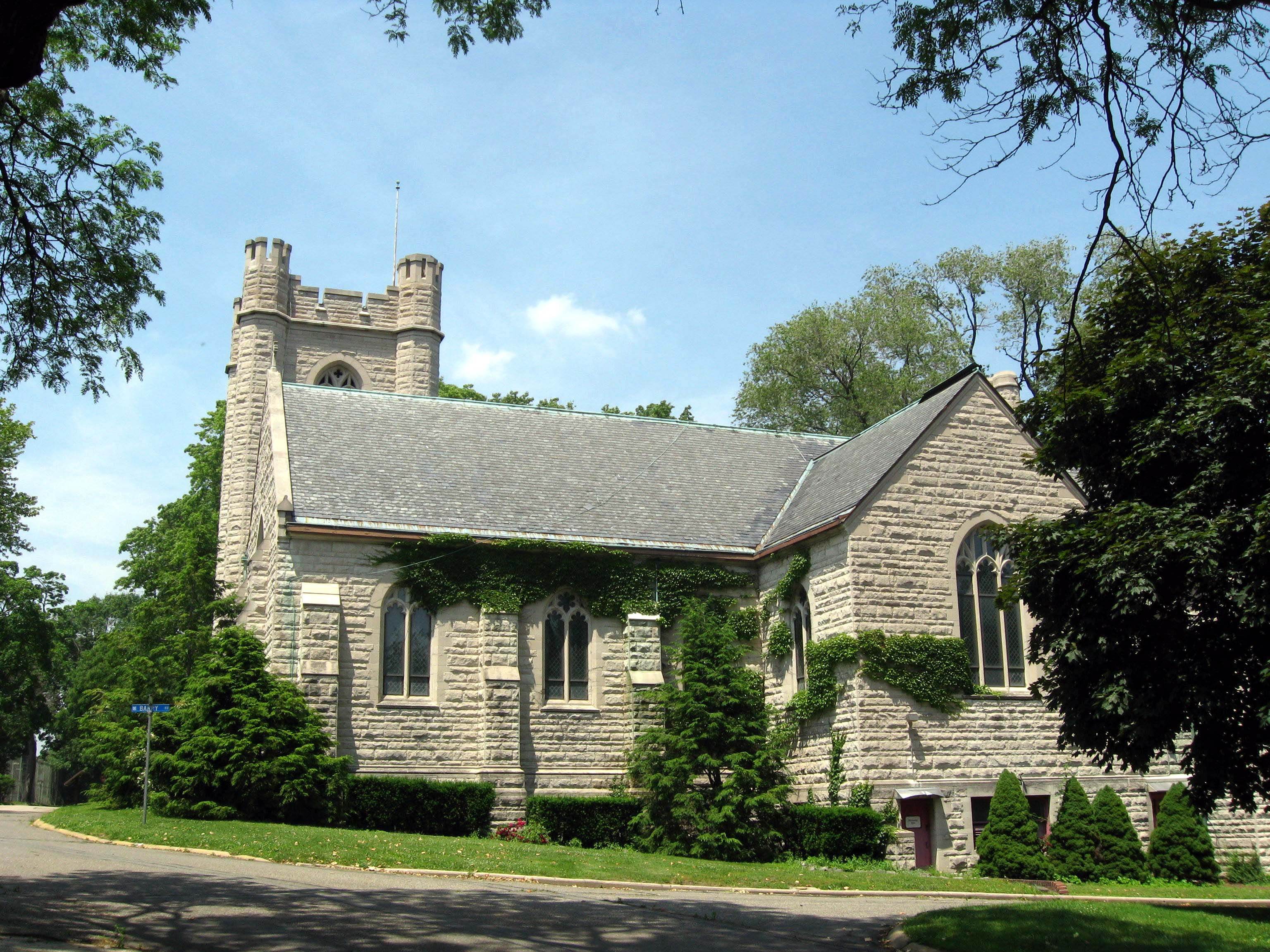 Looking north on a sunny afternoon at the Episcopalian Chapel of Saint Cornelius the Centurion on Governors Island in New York Harbor.